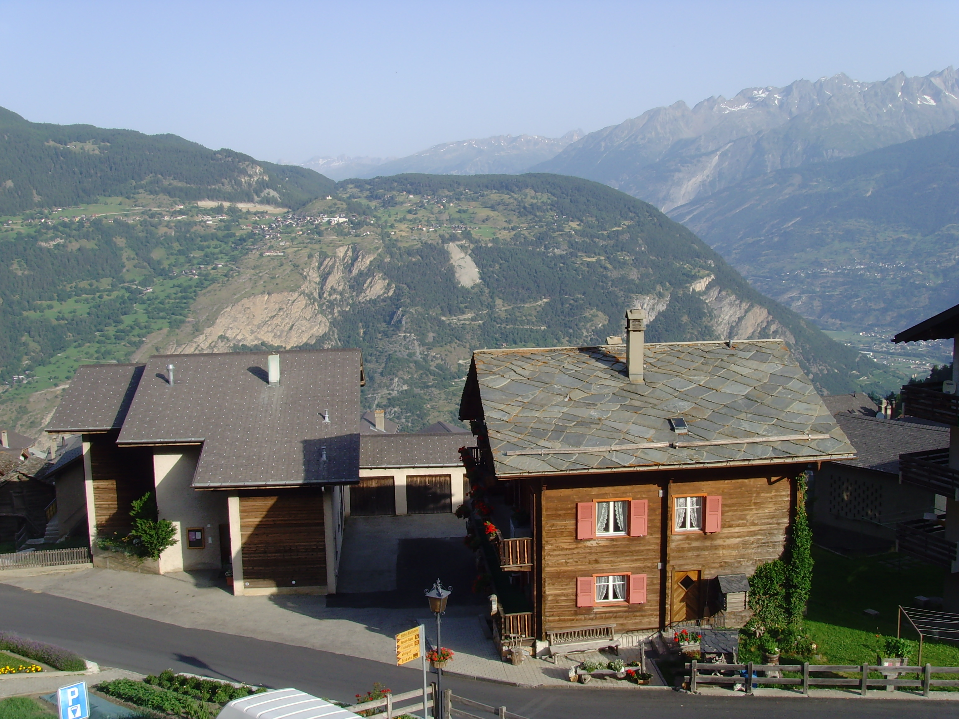 Visperterminen, Valais, Switzerland